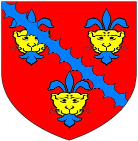 Arms of the Denys family of Glamorgan and of Siston and Dyrham, Gloucestershire, England, UK: Gules, three leopard's faces or jessant-de-lys azure over all a bend engrailed of the last. It appears on the Denys monumental brass in the Parish Church of Saint Mary the Virgin, Olveston, Gloucestershire.